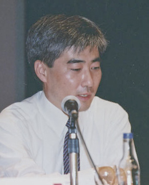 Professor Hyun Shin, LSE Financial Markets Group IMAGELIBRARY/842 Persistent URL